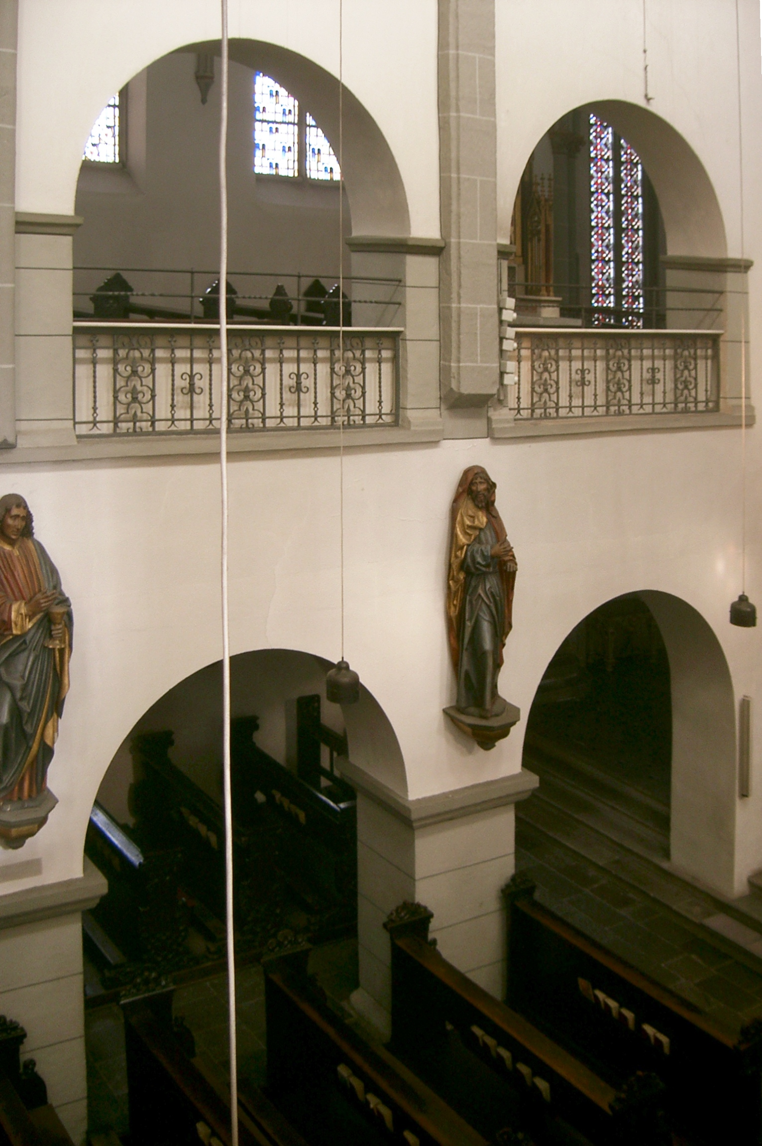 Siegburg, church St. Servatius, northern wall of nave with gallery